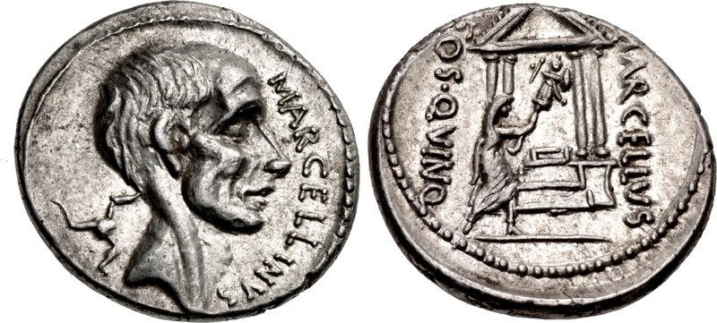 P. Cornelius Lentulus Marcellinus. 50 BC. AR Denarius (19mm, 4.04 g, 4h). Rome mint. Bare head of M. Claudius Marcellus right; triskeles to left, MARCELLINVS downward to right / M. Claudius Marcellus advancing right, carrying trophy into tetrastyle temple; [M]ARCELLVS downward to right, [C]OS • QVINQ downward to left. Crawford 439/1; Sydenham 1147; Claudia 11; BMCRR Rome 4206; RBW 1554. Superb EF, lustrous, reverse struck slightly off center. From the Alan J. Harlan Collection. Ex Numismatica Ars Classica 51 (5 March 2009), lot 58.